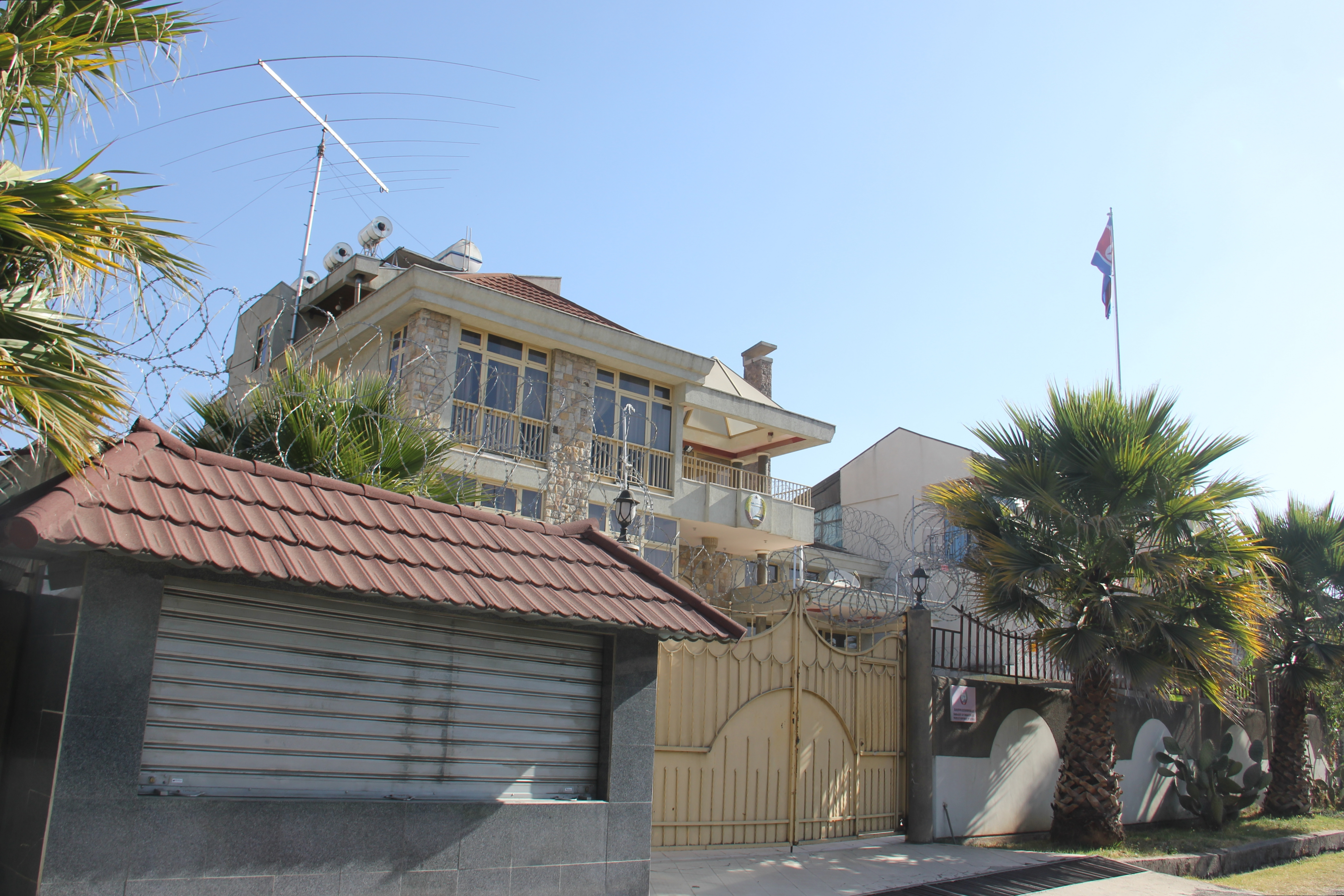 Embassy of North Korea in Addis Ababa, Ethiopia